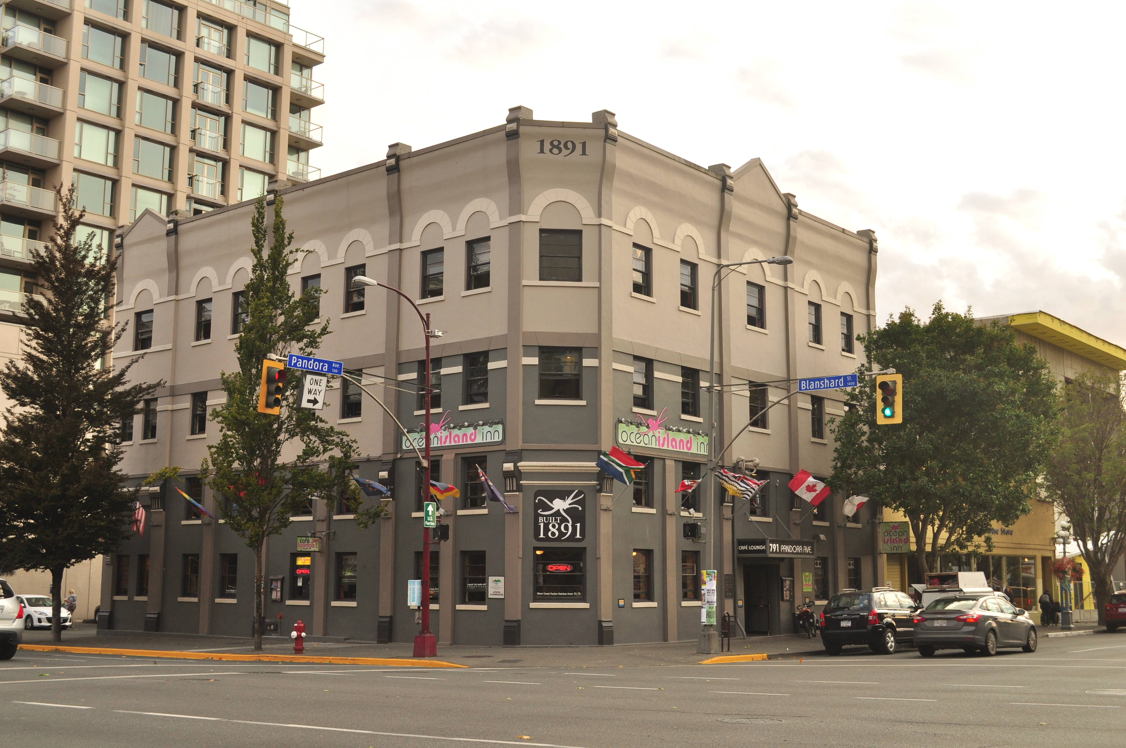 Ocean Island Inn, 791 Pandora Avenue, Victoria, British Columbia. Variously known as Ocean Island Backpackers' Inn, Allies Hotel, Osborne House, Pandora Hotel.